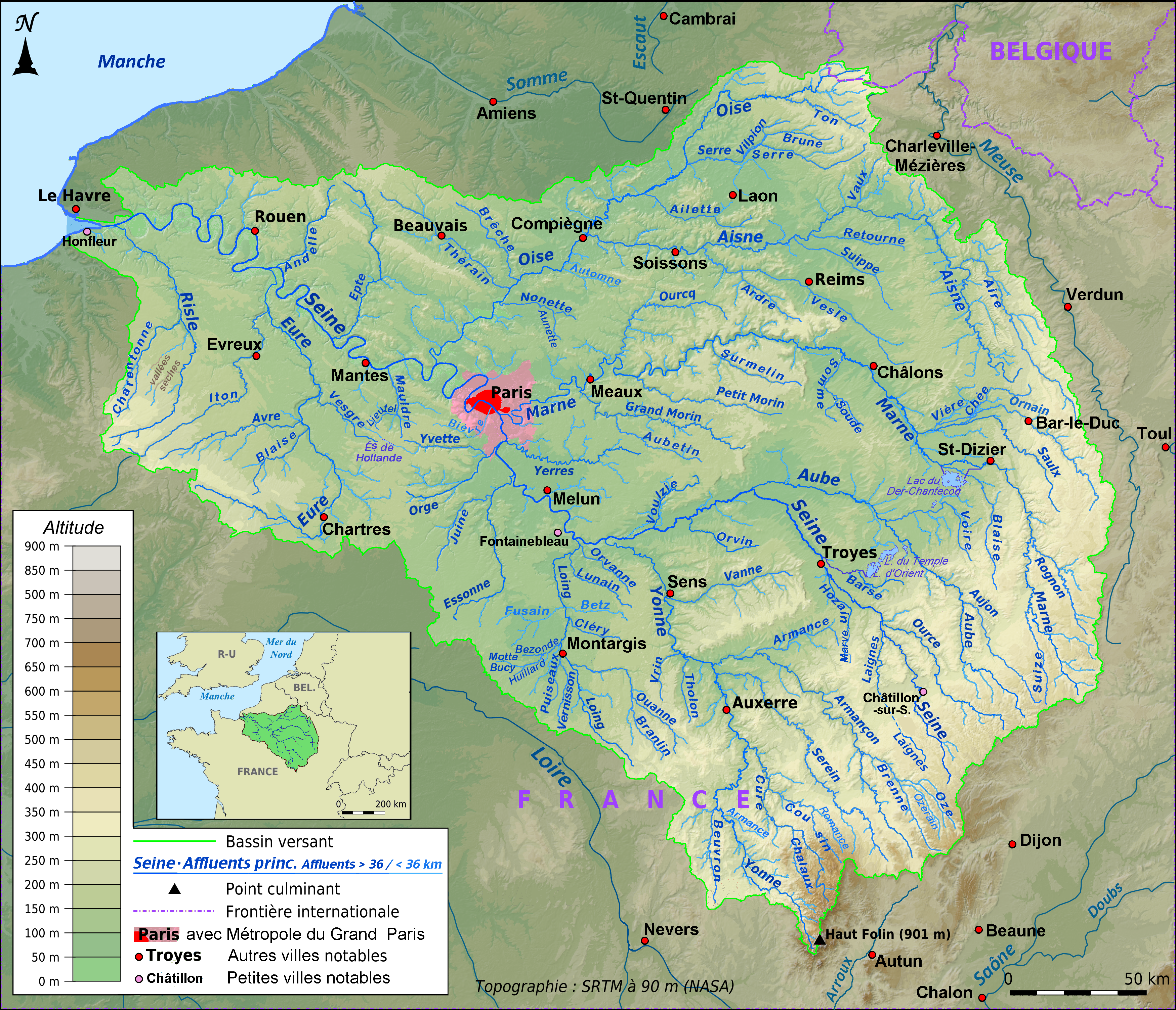 Topographic map of the Seine basin in French, in png format, Lambert 93 projection